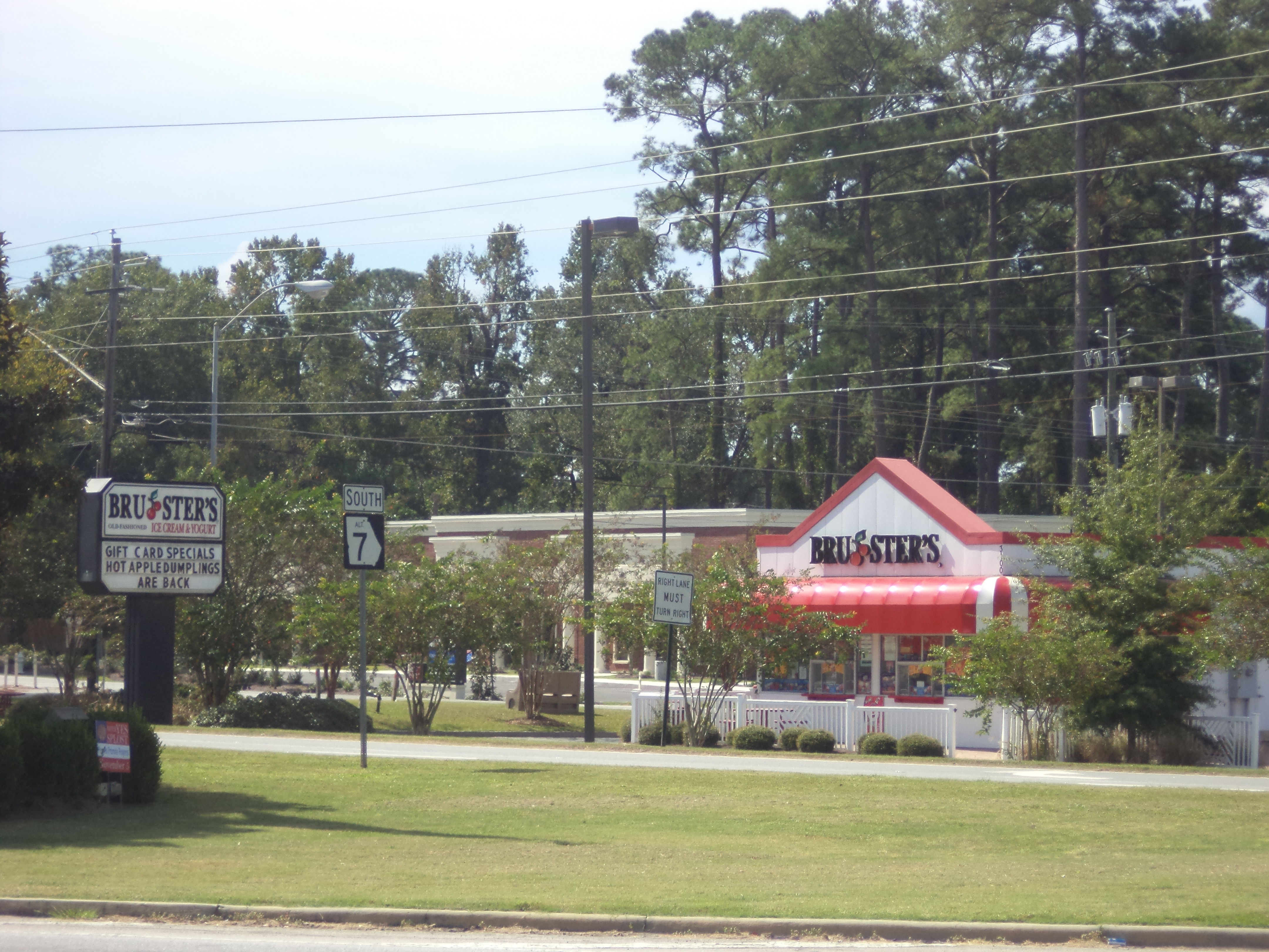 Bruster's, N Ashley St, Valdosta, Lowndes County, Georgia